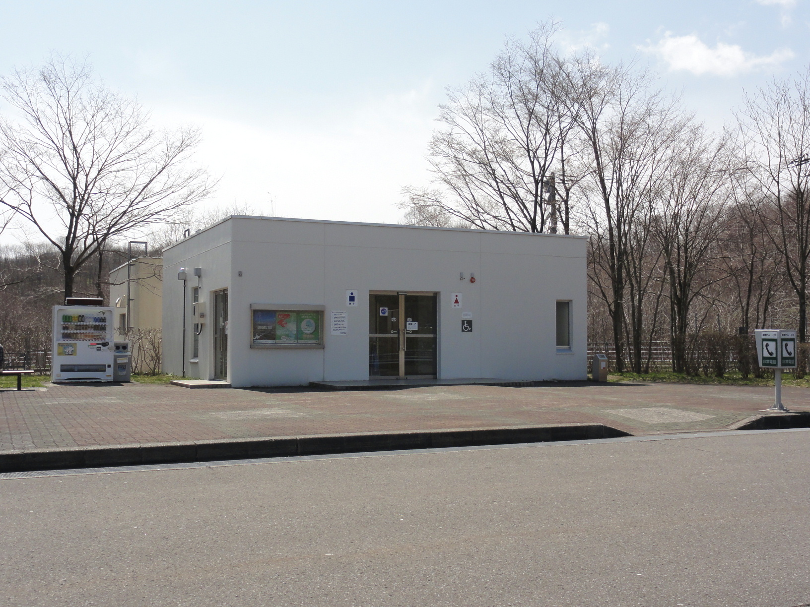 Hokkaidō Expressway Hagino Parking Area for Hakodate